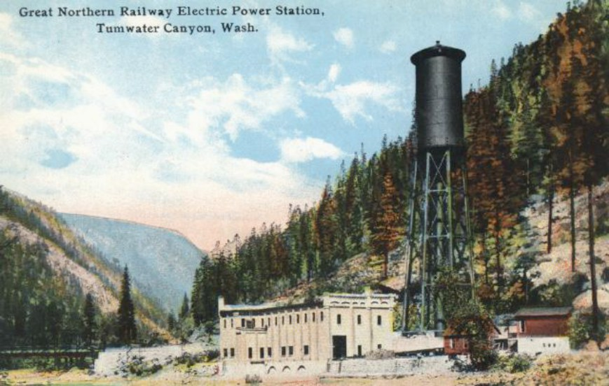 Great Northern Railway Electrical Power Station in the Turnwater Canyon, Washingotn